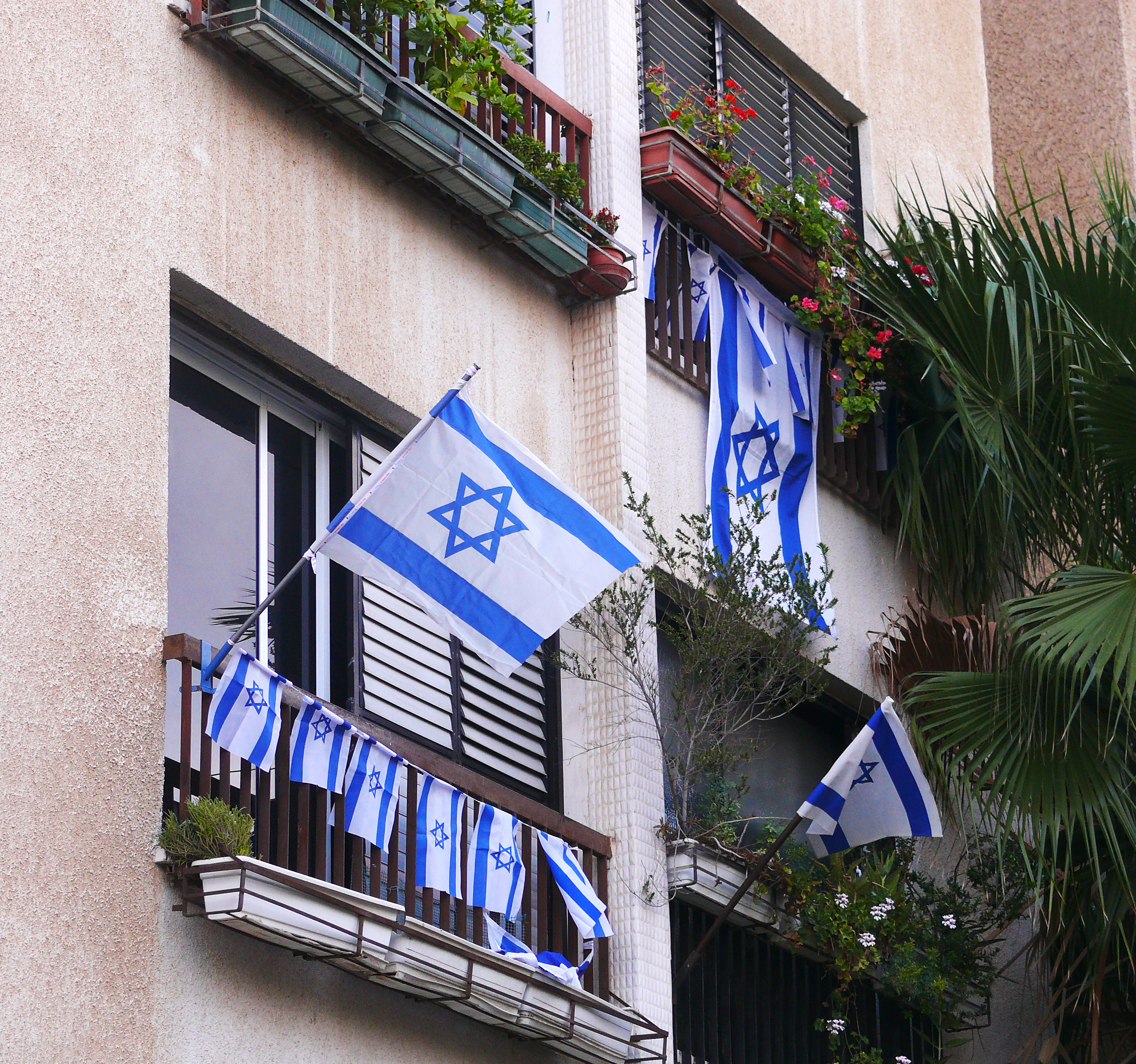 Flags of Israel and little flags decorate houses in Israel for celebrating Yom Ha'atzmaut (Independence Day)